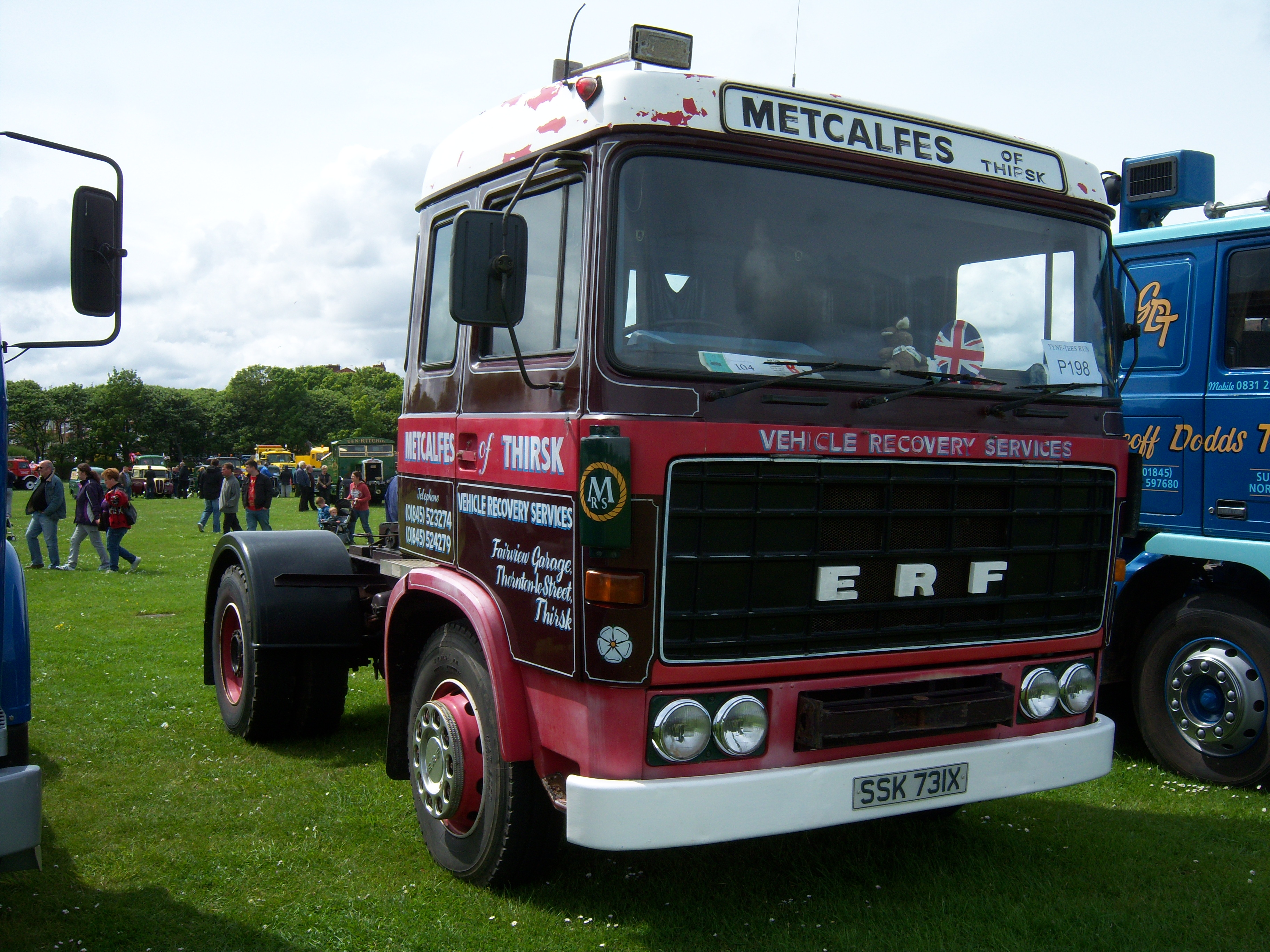 A 1982 ERF B-series (reg. SSK 731X) tractor unit, pictured at the end of the 2012 HCVS Tyne-Tees Run. It's in the livery of Metcalfes of Thirsk vehicle recovery services.